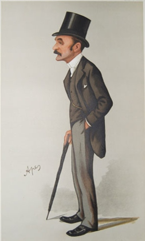 Caricature of Francis Charles Philips. Caption read "As in a Looking Glass".